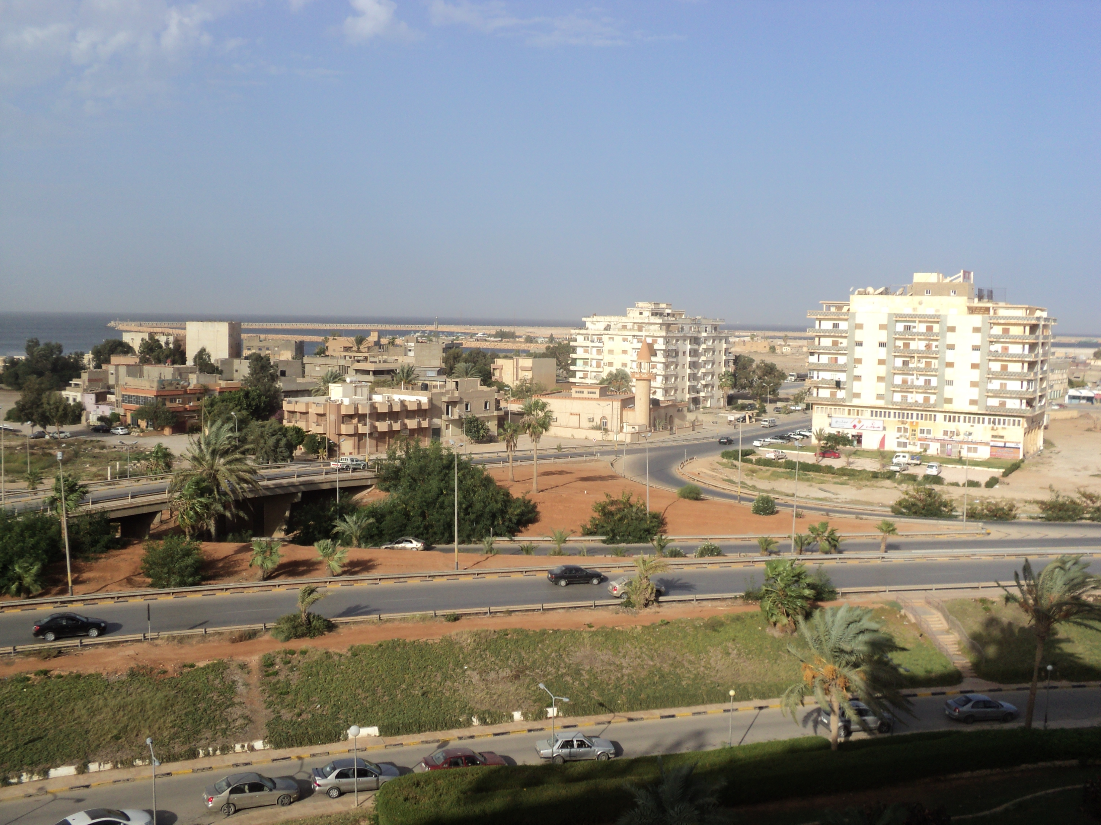 A view of Jeliana neighbourhood, benghazi, Libya.